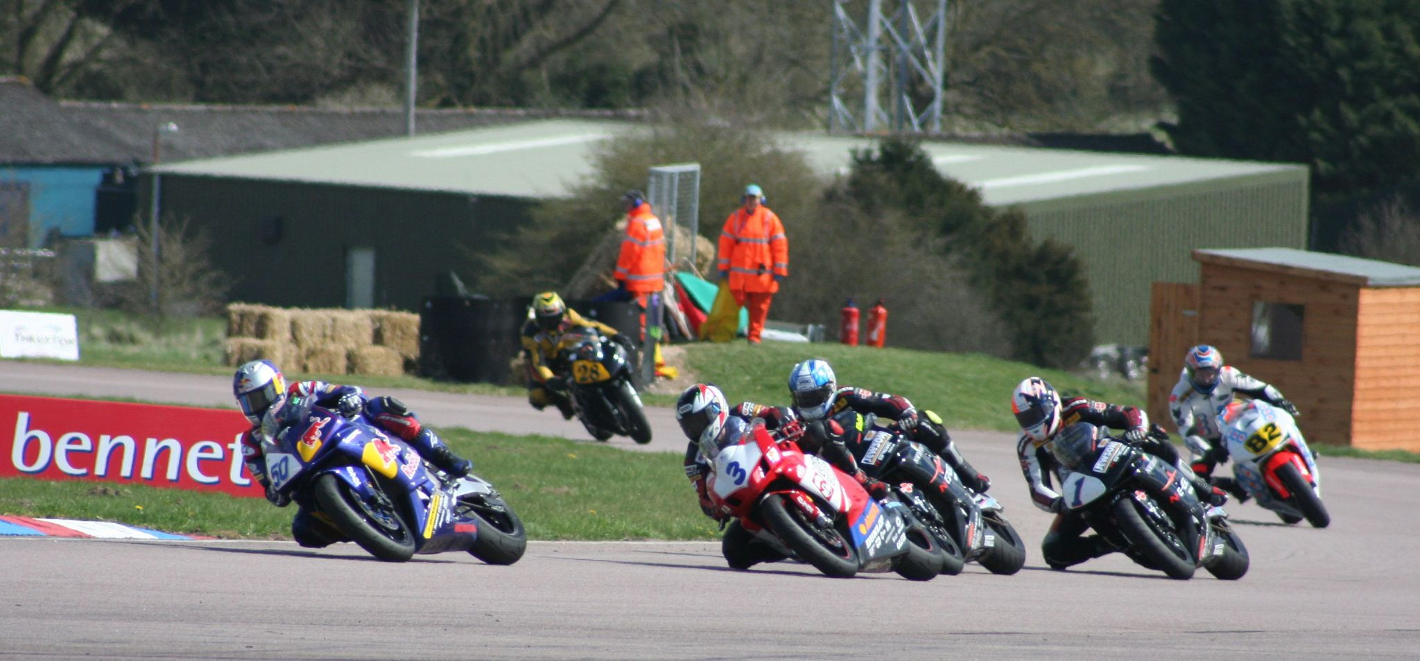 A British Superbikes race at Thruxton.